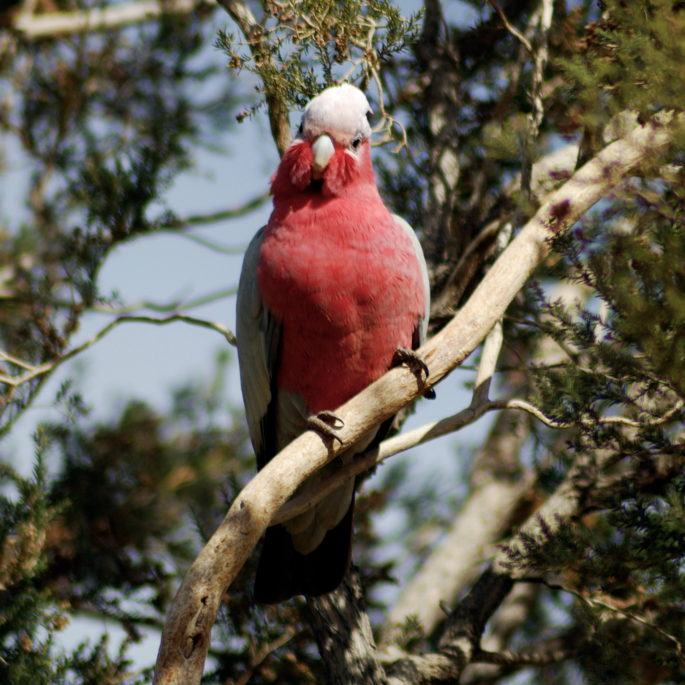 Galah, also known as the Rose-breasted Cockatoo, in Yulara, Nothern Territory, Australia.